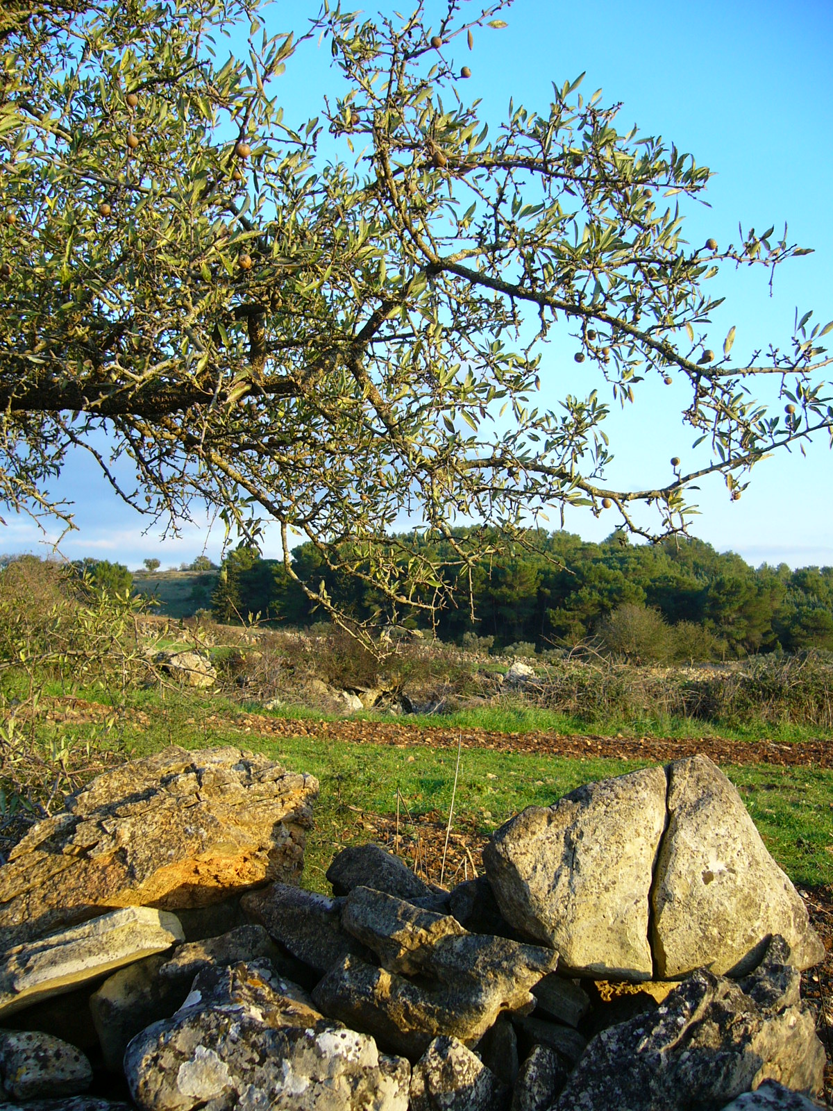 SI